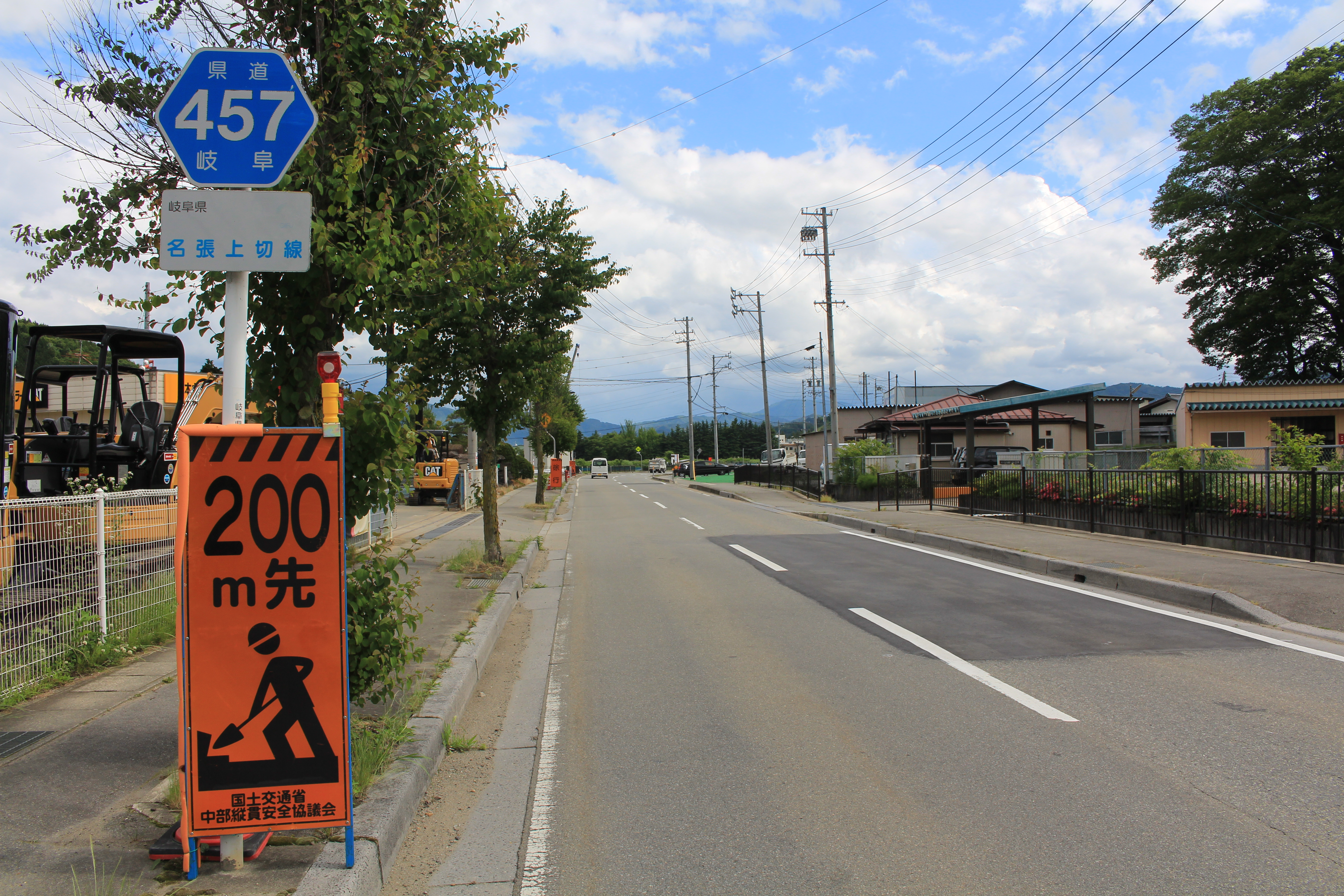 Gifu Prefectural Road Route 457 in Nakagiri, Takayama, Gifu prefecture, Japan.